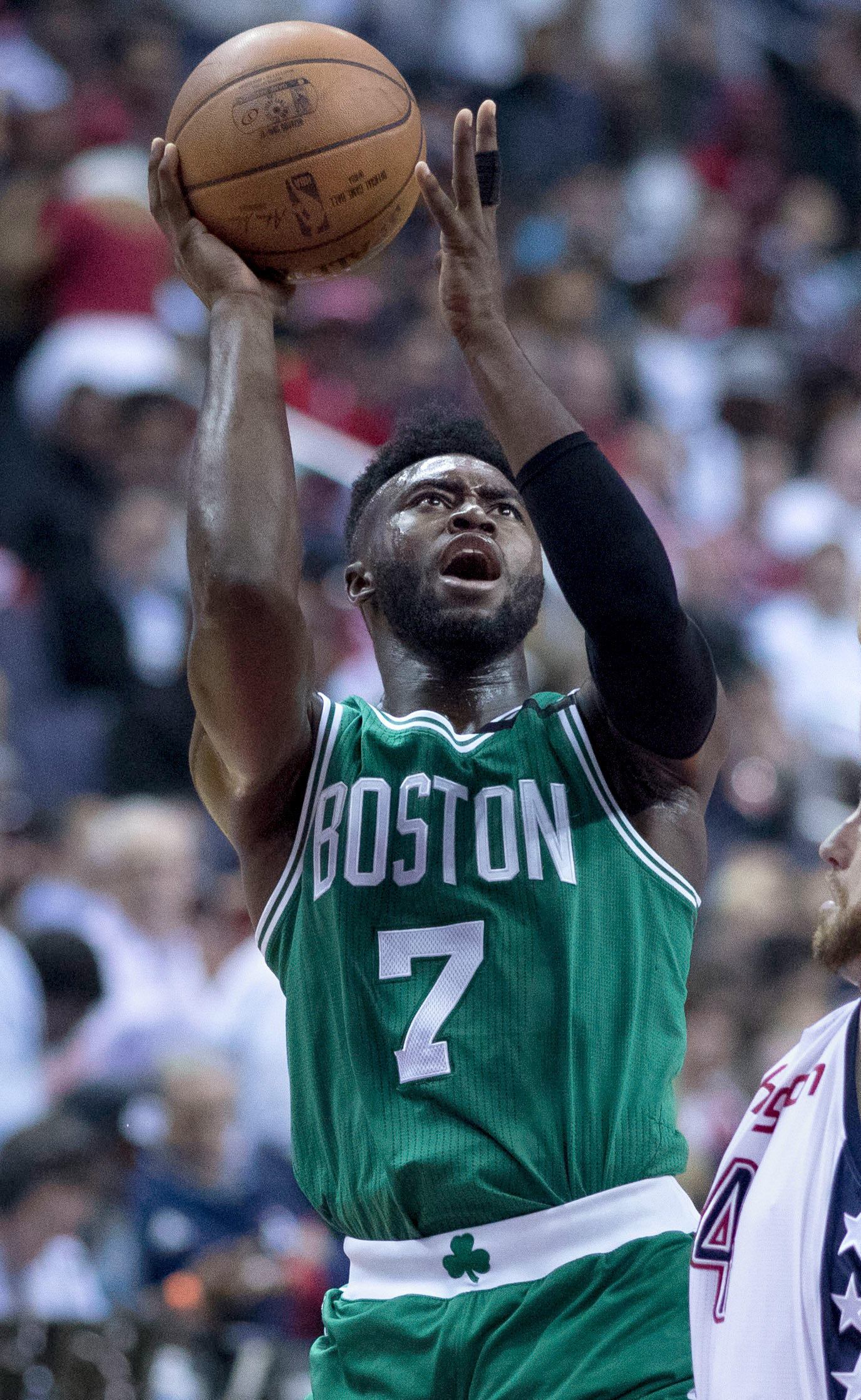 Celtics at Wizards 5/4/17